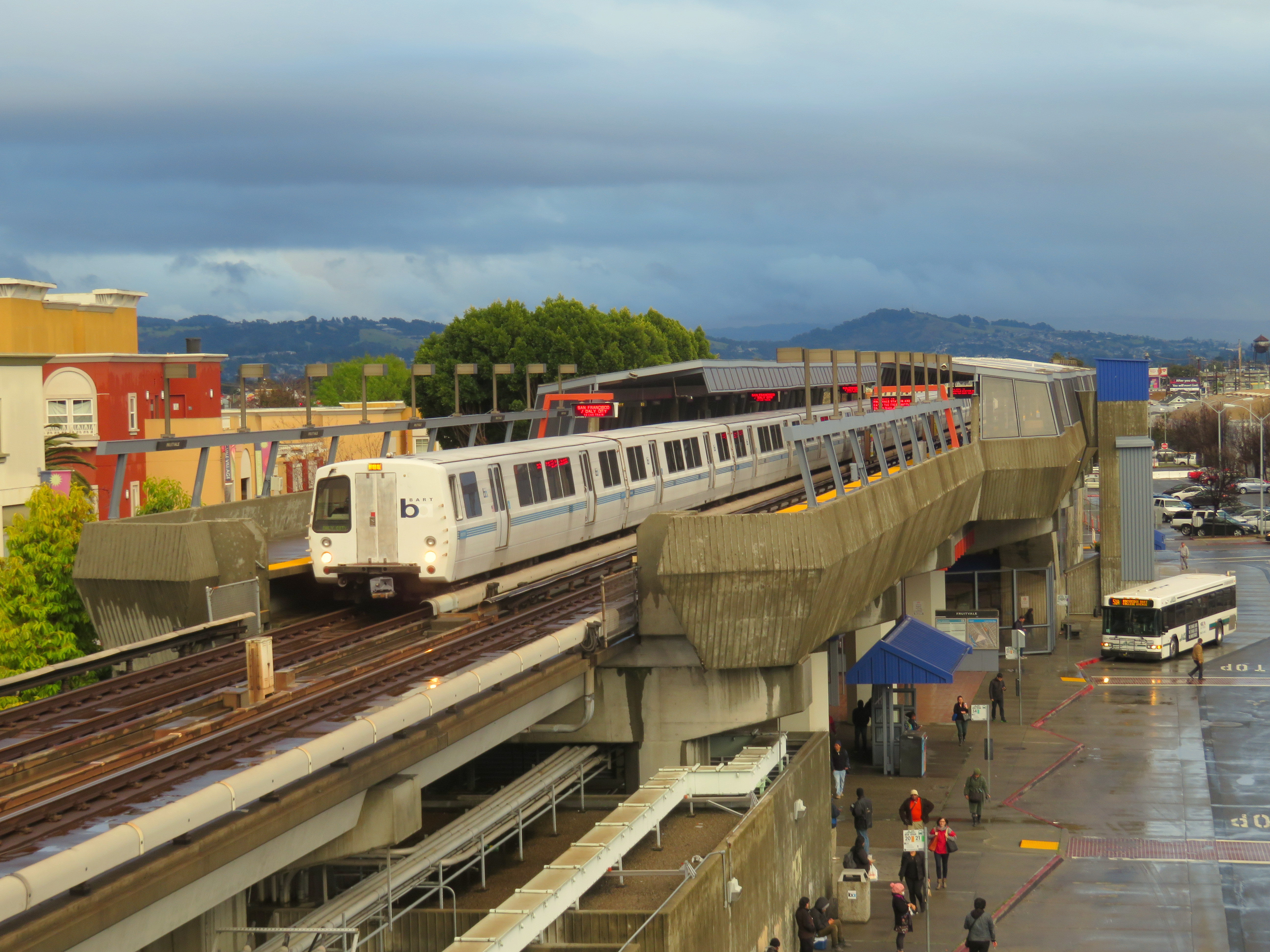 Fruitvale station and busway in March 2018